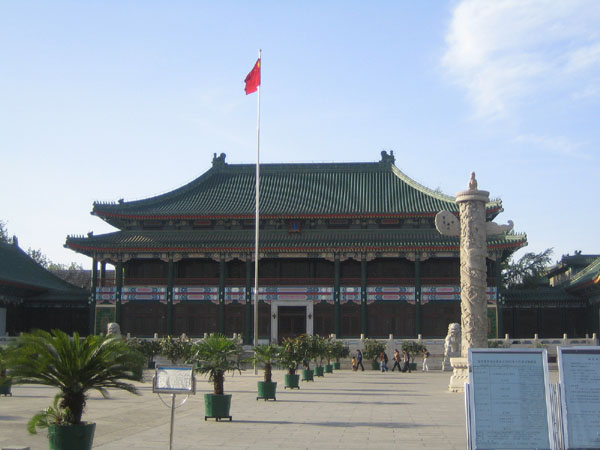 The National Library of China, located in Beijing